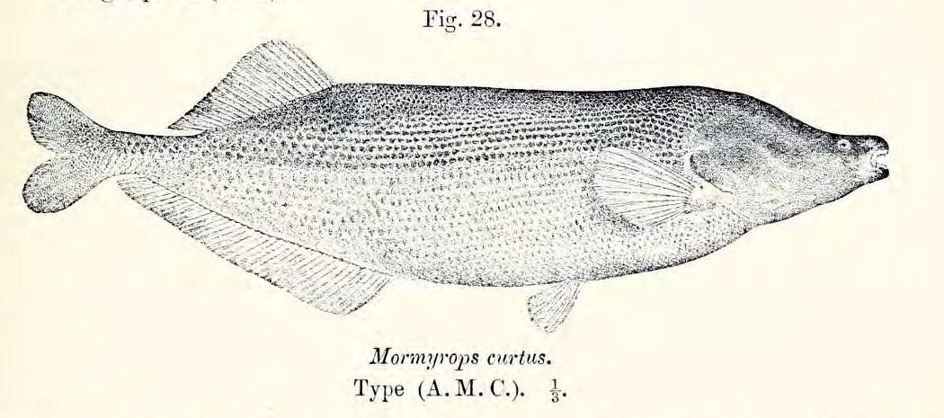 Mormyrops curtus Boulenger, 1899